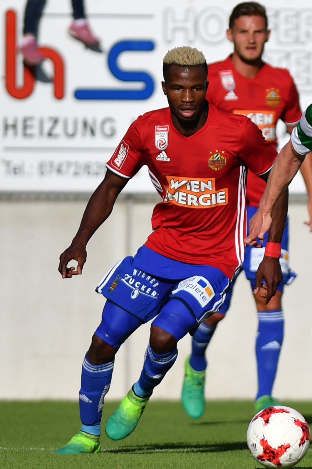 1/7/2017, Amstetten, Austria, sports, soccer, Tipico Fussball Bundesliga - preparation match SK Rapid Wien vs Celtic Glasgow. Image shows Boli Bolingoli (SCR).